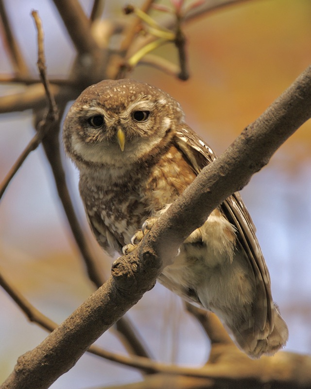 Spotted Owlet (Athene brama) Town Park,Dhaka, Bangladesh May 1, 2007 Distribution: ssp Indica